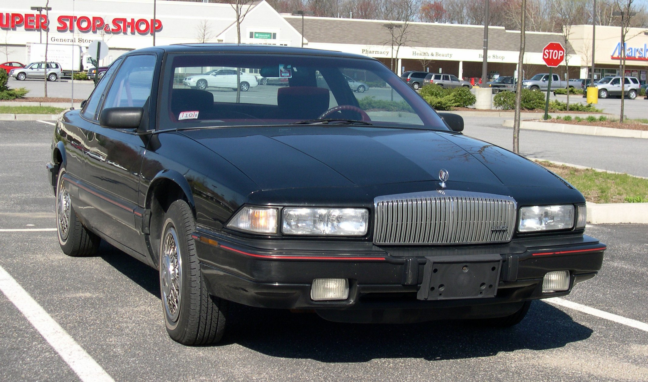 1991 Buick Regal Limited